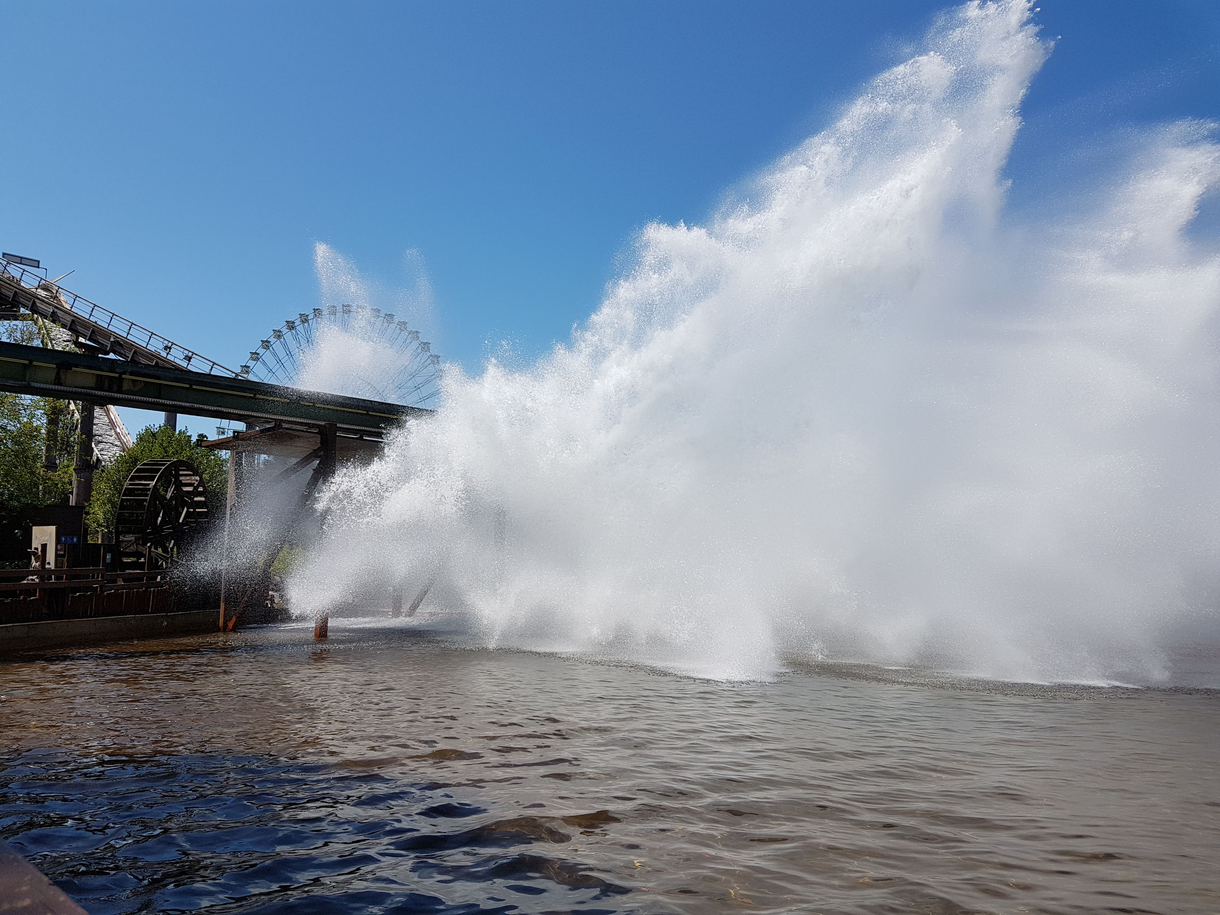 El Dorado Falls in Mirabilandia